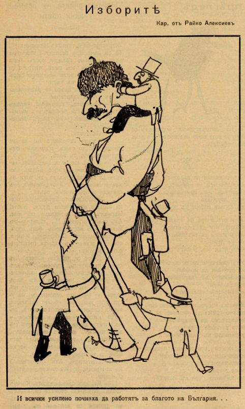 Rayko Aleksiev caricature